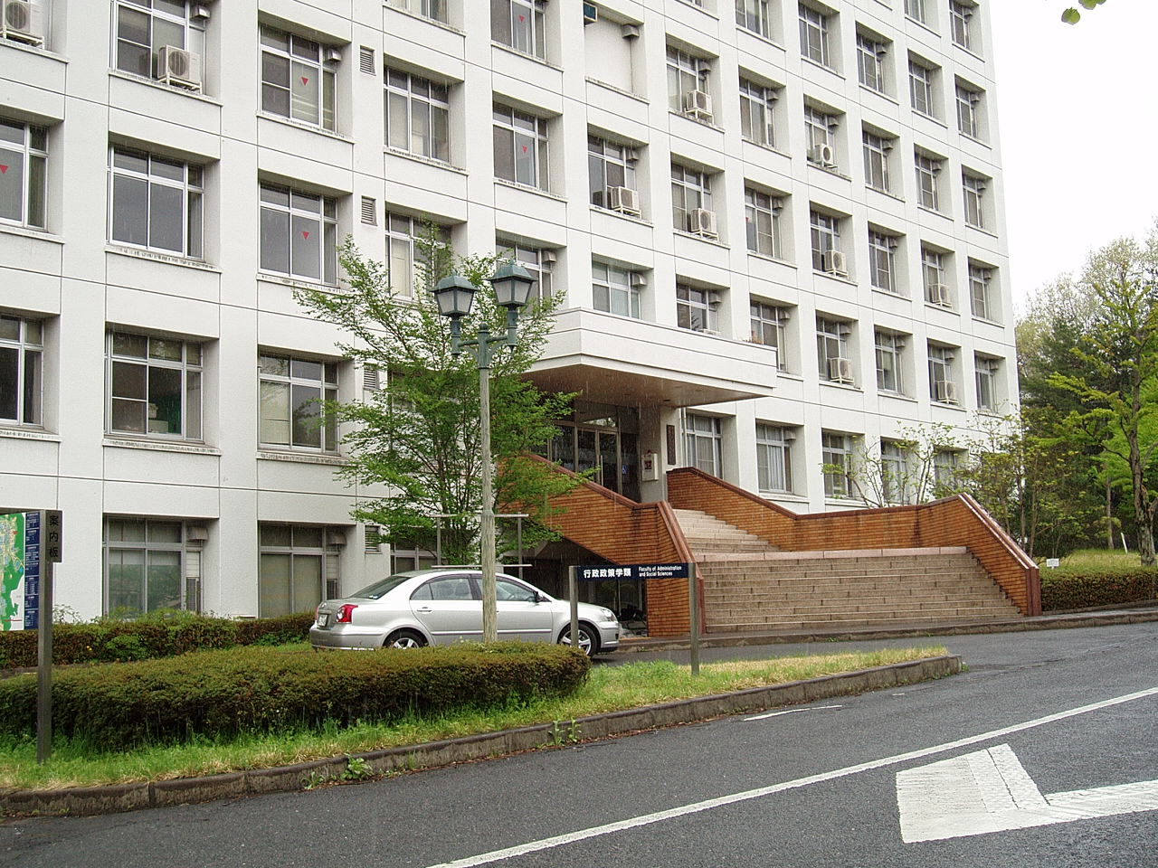 Faculty of Administration and Social Sciences, Fukushima University